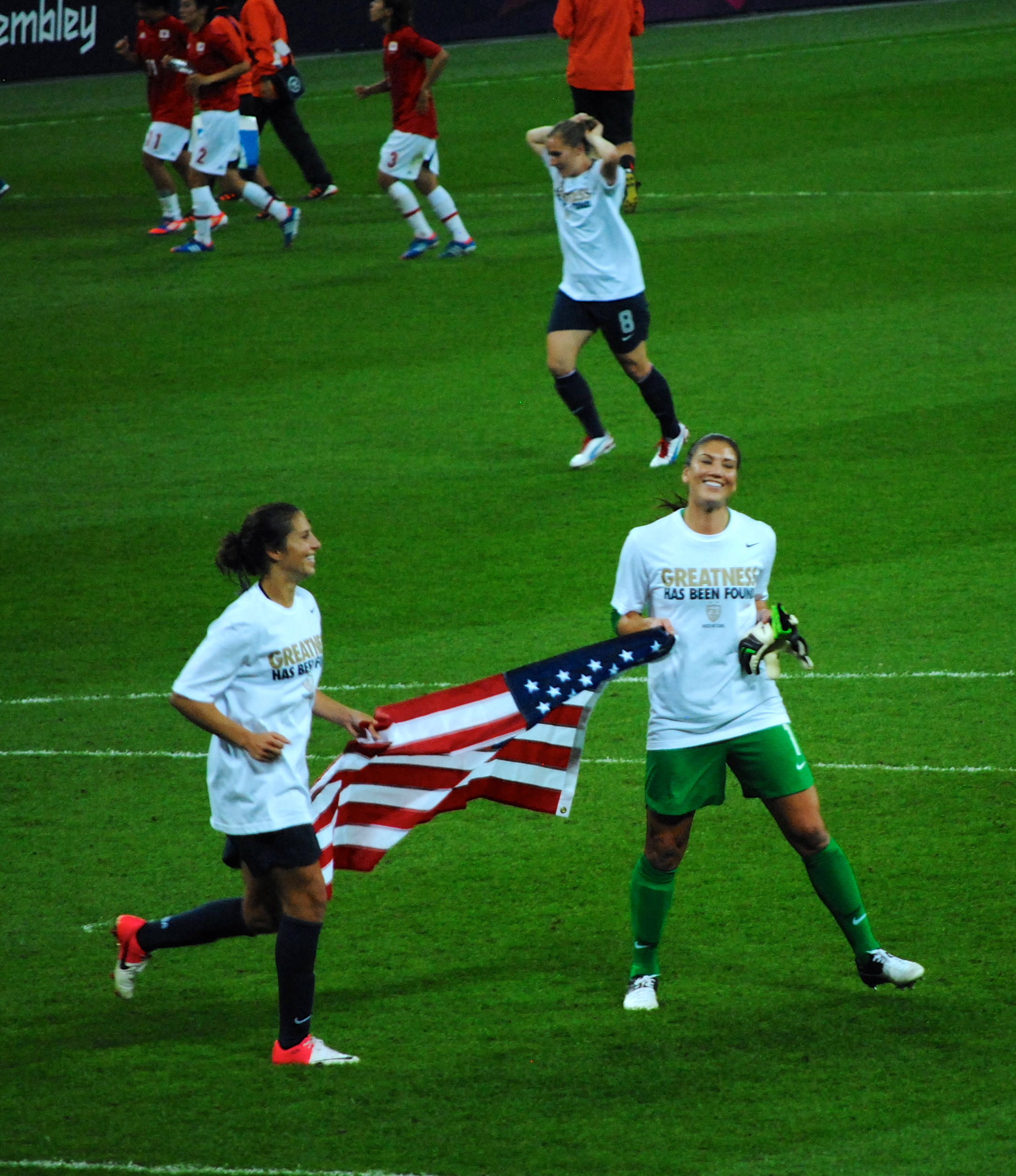 Hope Solo and Carli Lloyd at 2012 Summer Olympics final